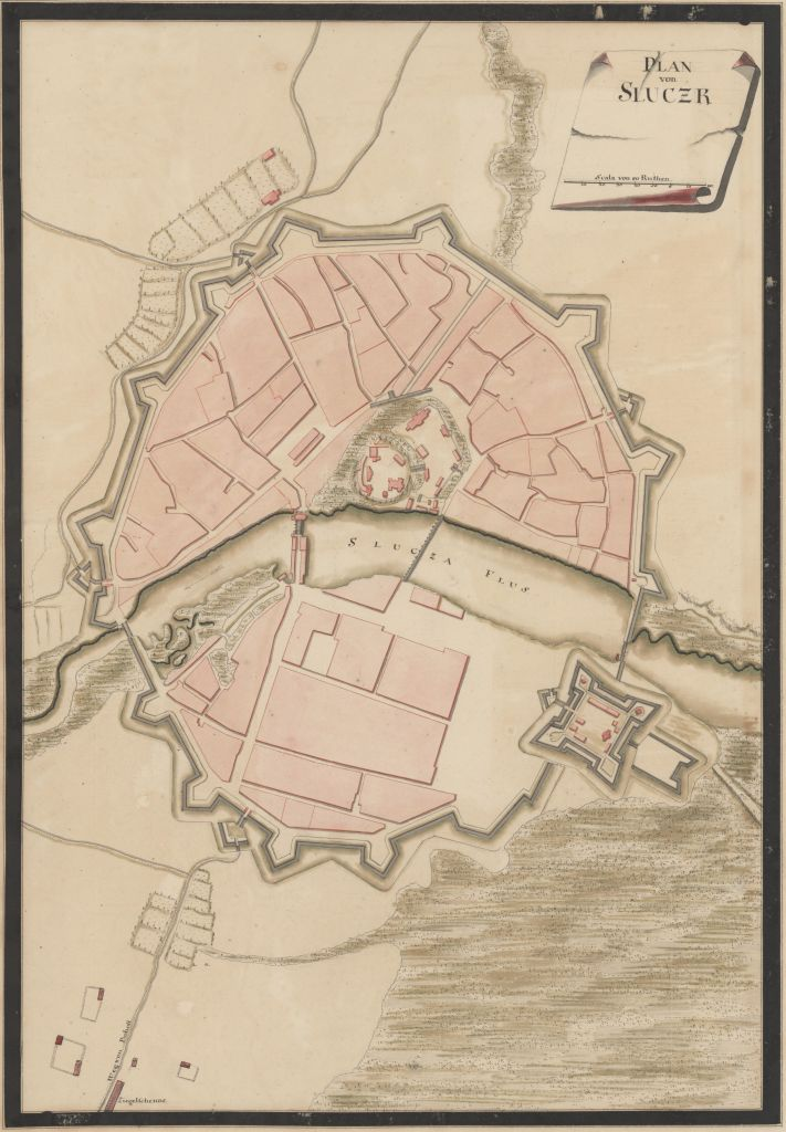 Fortifikation of Sluck, Belarus